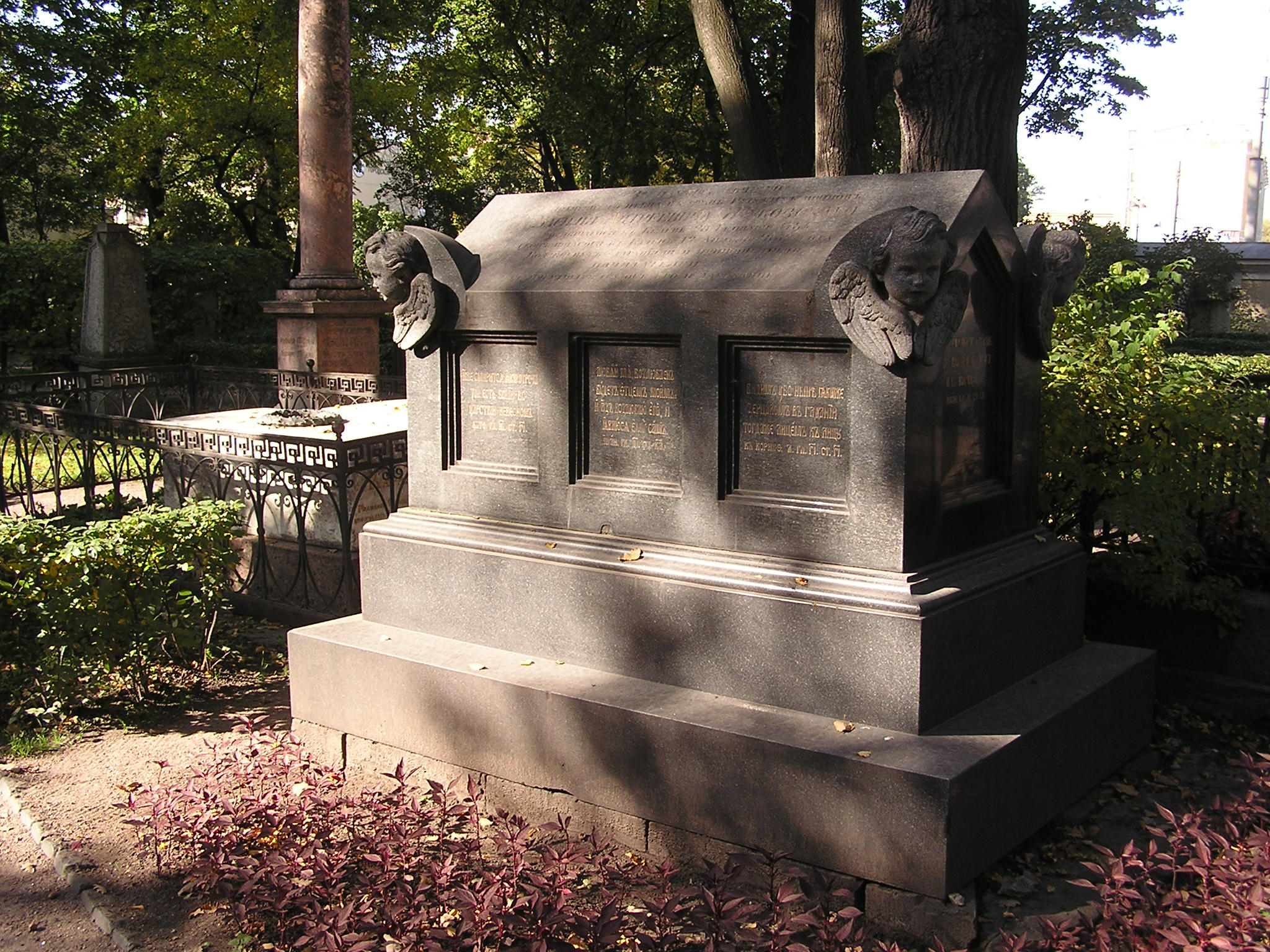 Tikhvin Cemetery